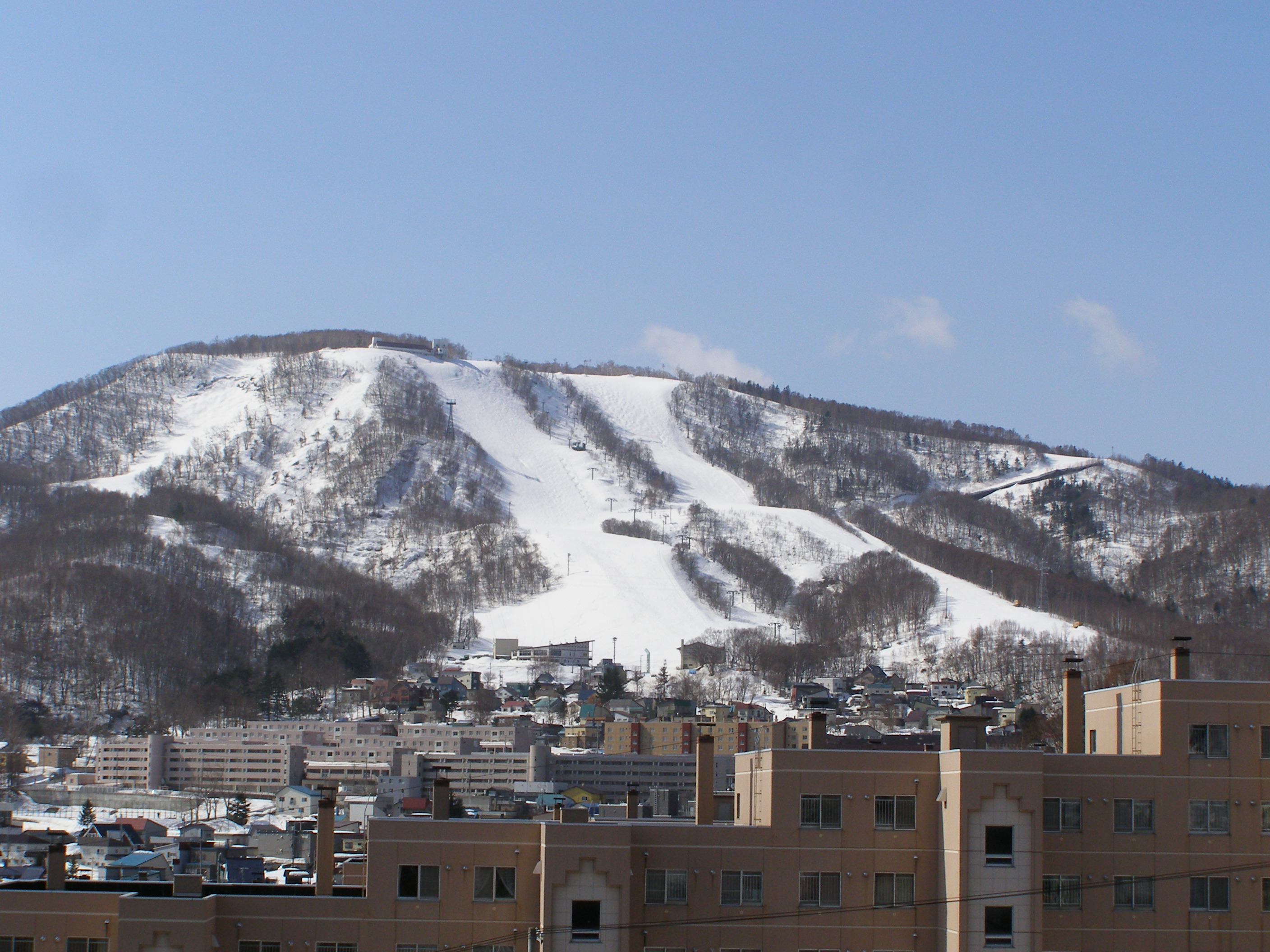 Otaru Tengu-yama ski resort in Otaru, Hokkaidō, Japan.